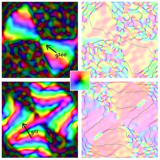 Simulated icosahedral twin bowties (dual tetrahedra) and butterflies (bowtie pairs) correspond to power-spectrum spots around an icosahedral twin lattice image[1][2], like the image down the 5-fold zone of a Pd icosahedral twin here. The left column are complex color images of periodicity amplitude and phase as a function of position across the cluster, while the right column shows the corresponding phase gradient i.e. vector strain image instead.